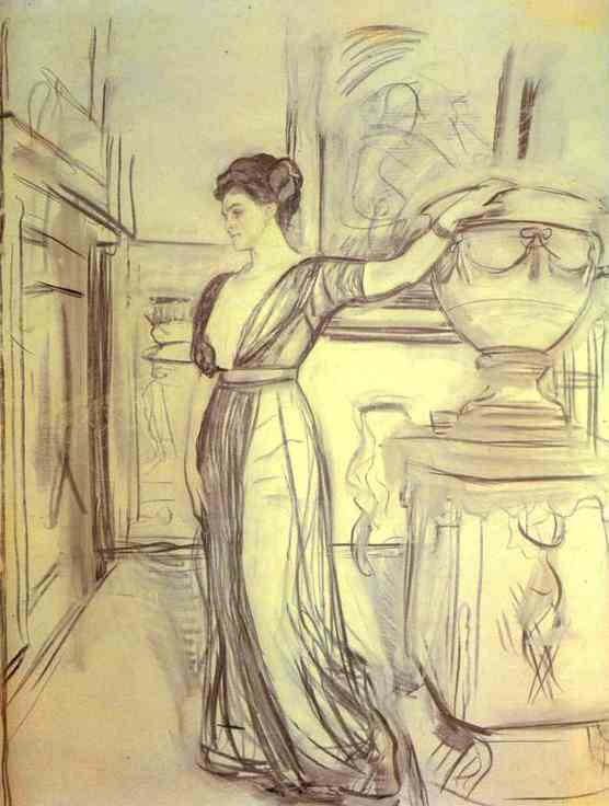 Portrait of Princess Polina Shcherbatova. 1911. Tempera, charcoal, pastel on canvas. The Tretyakov Gallery, Moscow, Russia.